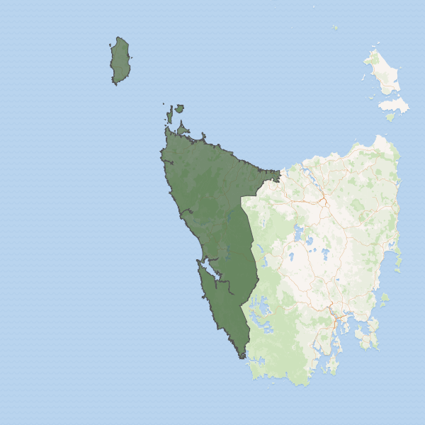 Electoral boundaries from Administrative Boundaries [May 2016] ©PSMA Australia Limited licensed by the Commonwealth of Australia under Creative Commons Attribution 4.0 International licence (CC BY 4.0): Background map layer and image thumbnail generated by Wikimedia maps; Creative Commons Attribution-ShareAlike 4.0 International licence (CC BY-SA 4.0).